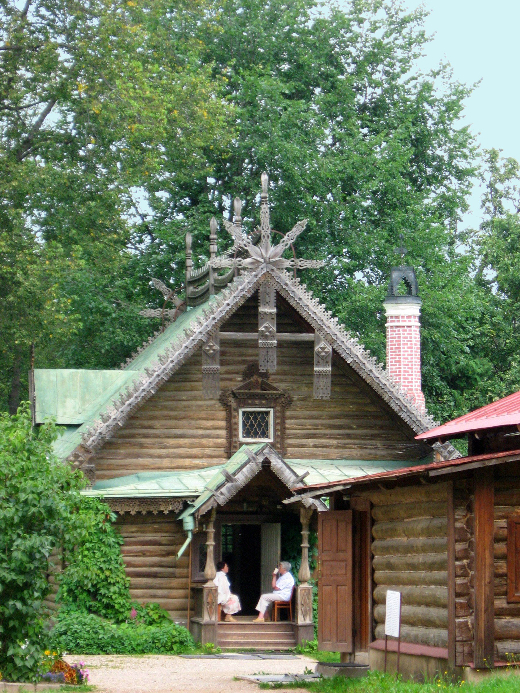 One of the wooden buildings in Abramtsevo